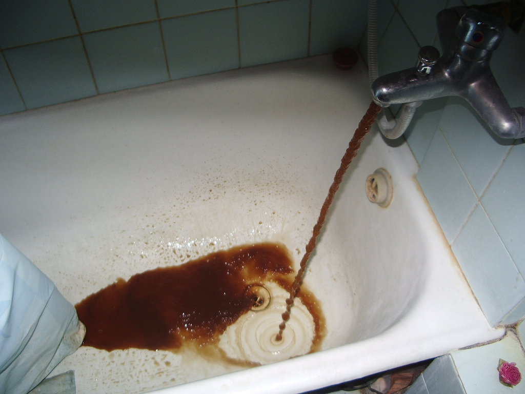 This happened this morning, and I wanted to share.